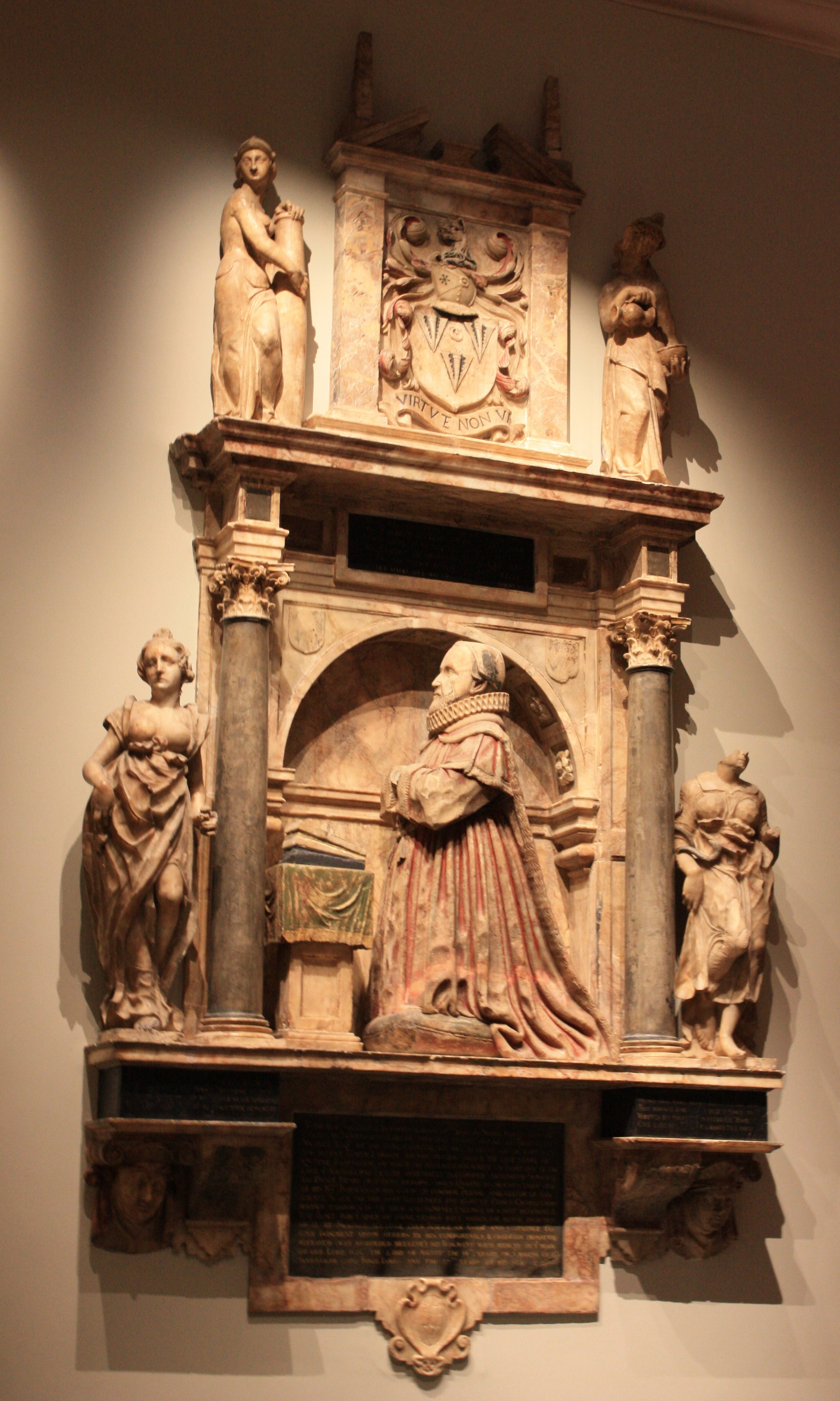 Monument to Sir Augustine Nicolls About 1616 Sir Augustine Nicolls (1559–1616) was a judge (a Justice of Common Pleas). He is shown between figures of Justice and Prudence. A monument in a cathedral or church provided an important opportunity for celebrating a dead person's virtues, character and achievements. Monuments were also served to perpetuate the names of individuals and families. Black marble and alabaster, painted Probably carved by Nicholas Stone (born in Woodbury, Devon, about 1587, died in London, 1647) From the demolished church of St Denis, Faxton, Northamptonshire Given by the Rector and Churchwardens of Lamport with Faxton Museum no A.9-1965 Wikipedia Loves Art at the Victoria and Albert Museum This photo of item # A.9-1965 at the Victoria and Albert Museum was contributed under the team name "va_va_val" as part of the Wikipedia Loves Art project in February 2009. Victoria and Albert Museum The original photograph on Flickr was taken by Val_McG—please add a comment to the original Flickr page whenever a use has been made on Wikipedia or another project. Project galleries on Flickr: this institution, this team